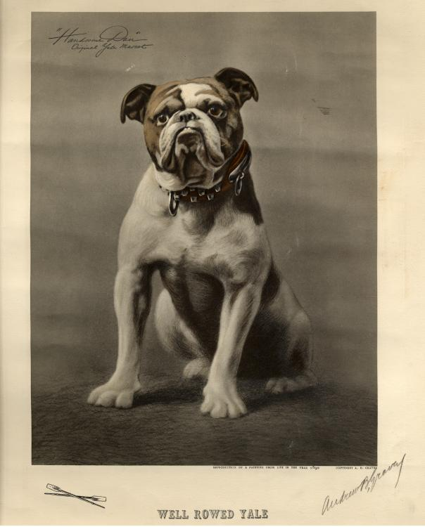 Reproduction of a painting from life in the year 1890 of "Handsome Dan," the Original Yale Mascot, and signed by the artist, Andrew B. Graves.